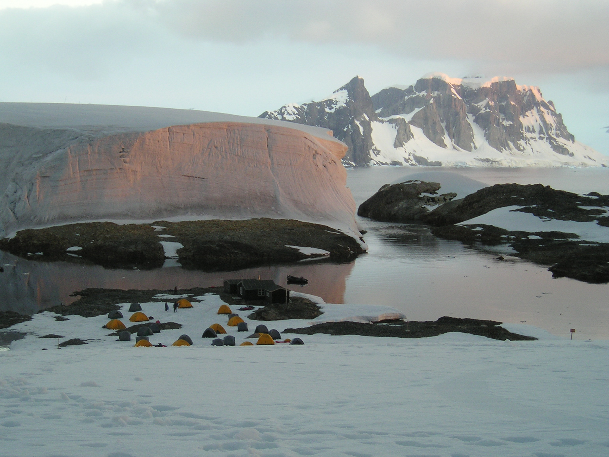 Campsite at Winter Island. Winter Island is an island 0.5 nautical miles (0.9 km) long, lying 0.1 nautical miles (0.2 km) north of Skua Island in the Argentine Islands, Wilhelm Archipelago. Winter Island was named by the British Graham Land Expedition (BGLE), 1934–37, which made this island the site of its winter base during 1935. In 1947, Falkland Islands Dependencies Survey established a base on Winter Island, Base F (Argentine Islands). The main building ("Wordie House") was erected at the old camp site. The station were relocated to the neighbouring Galindez Island in May 1954 and renamed Faraday Station in 1977.